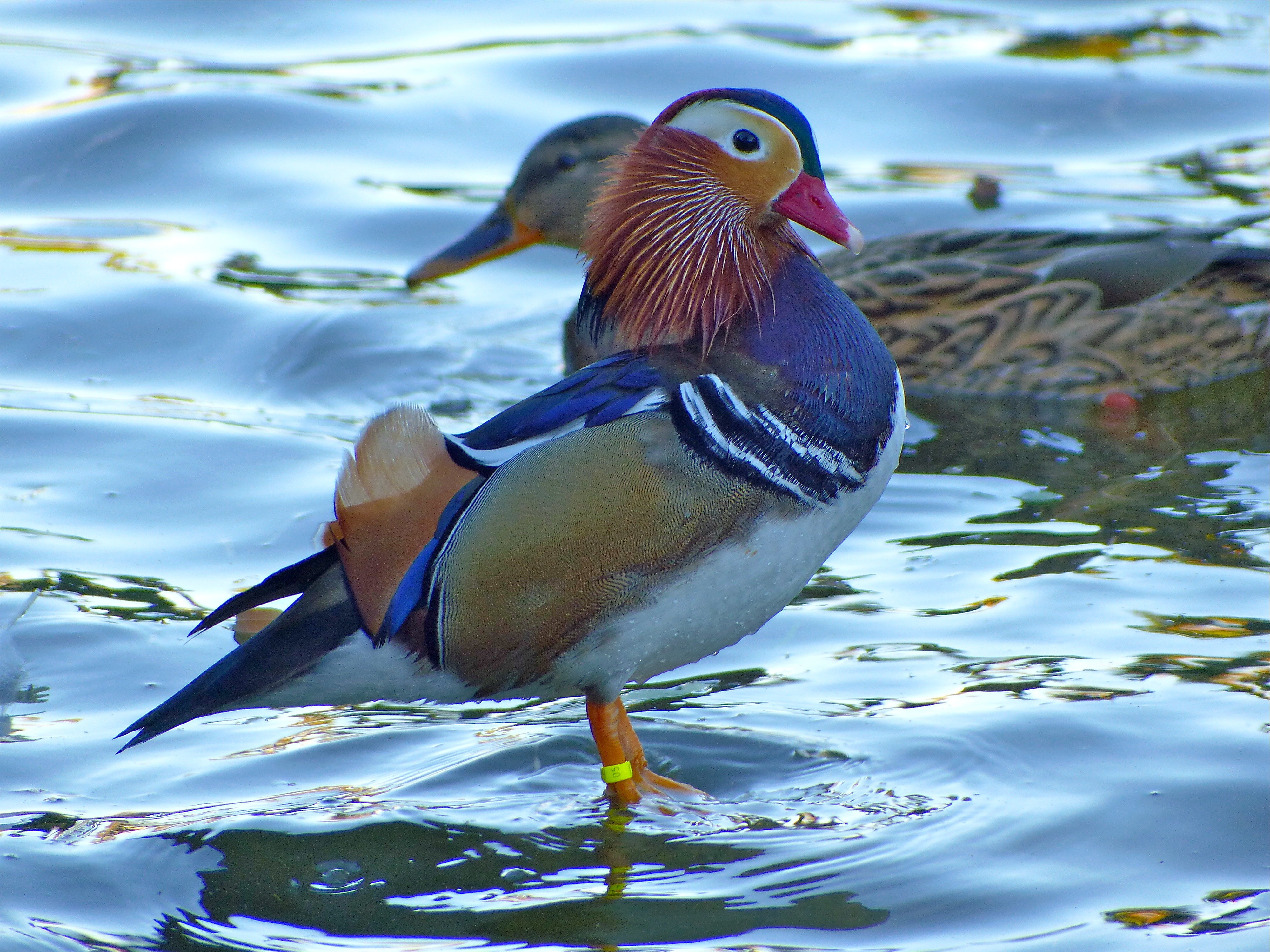 Parc Phenix, Nice, Alpes-Martimes, FRANCE